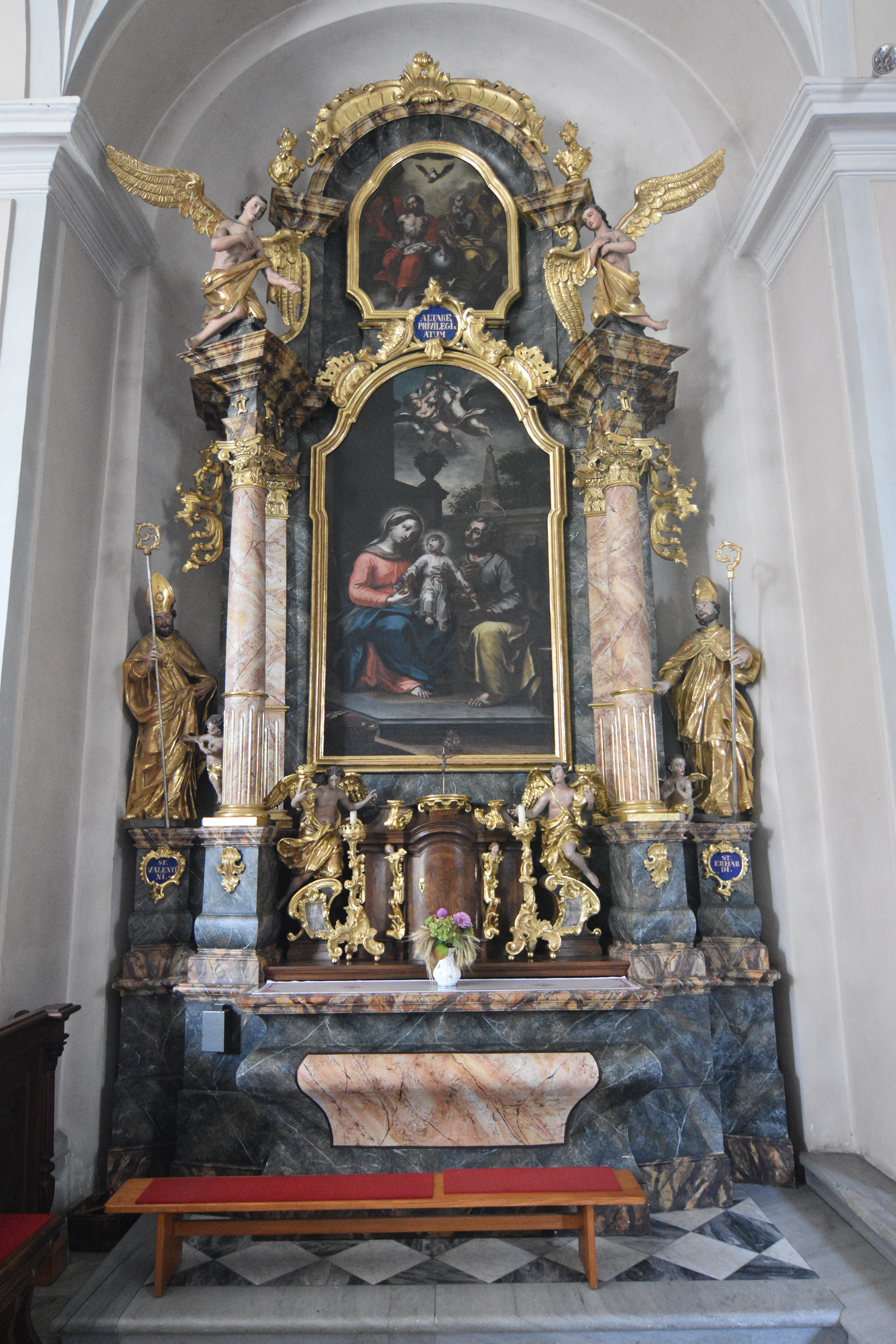 Pfarrkirche Kumberg - Interior